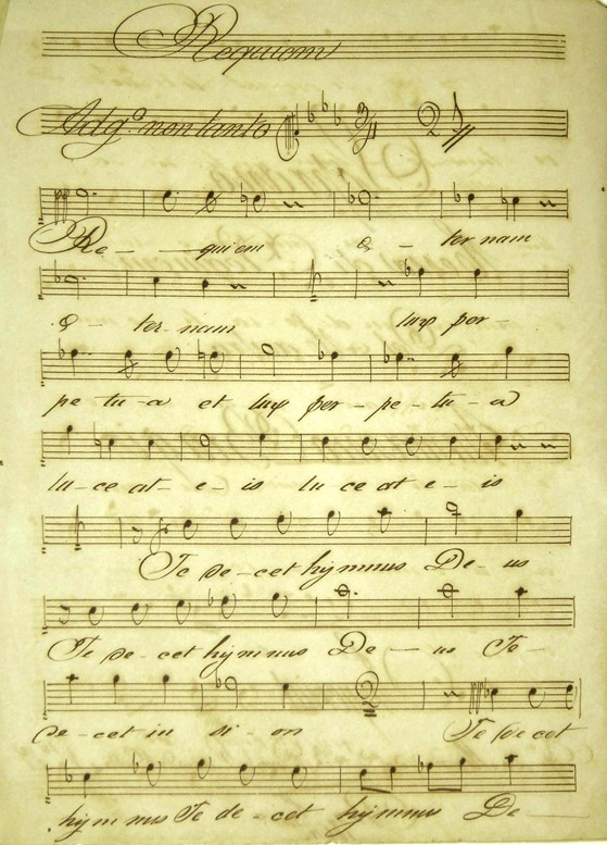 Alamanno Biagi, Messa di Requiem - Soprano, first page